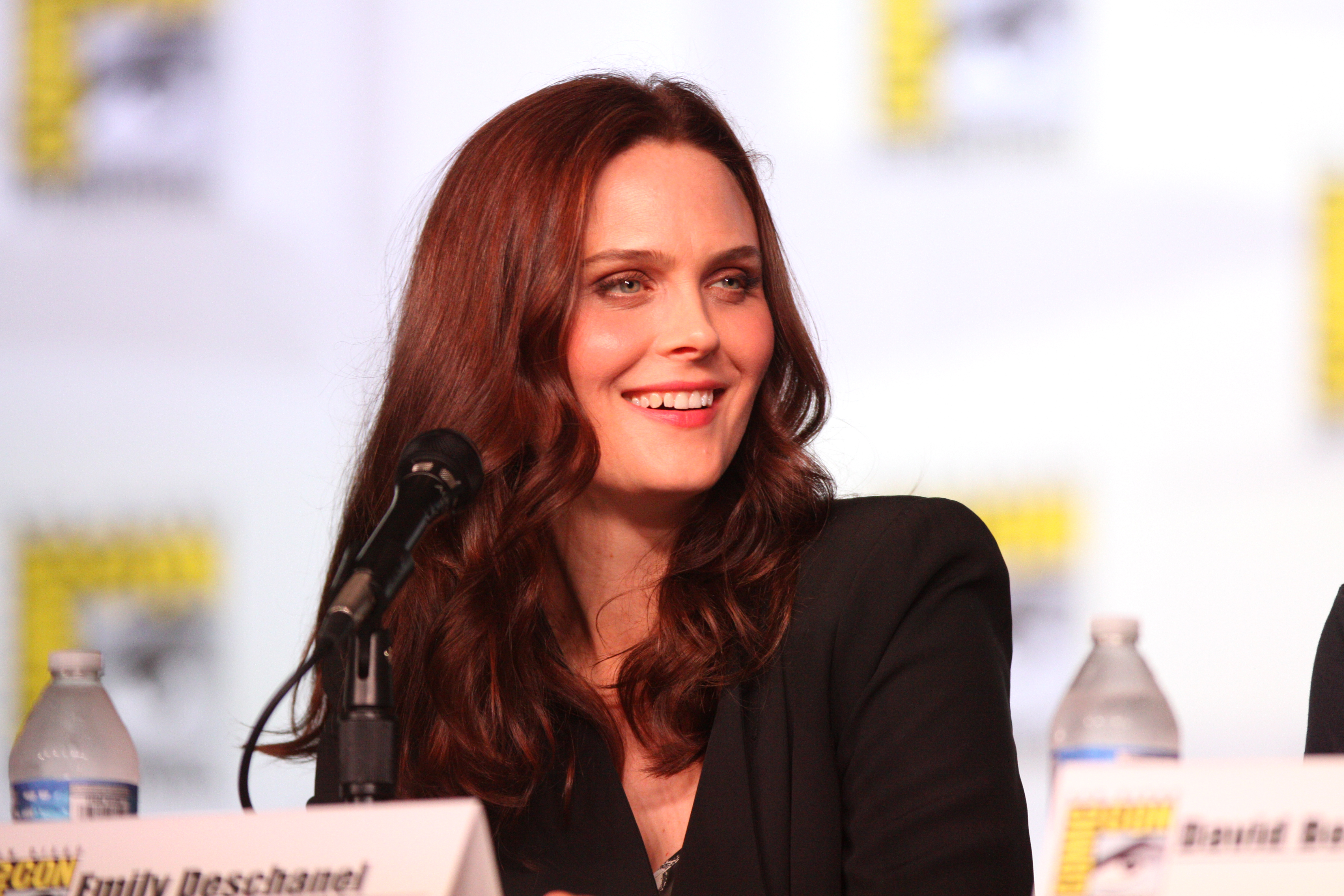 Emily Deschanel speaking at the 2012 San Diego Comic-Con International in San Diego, California.